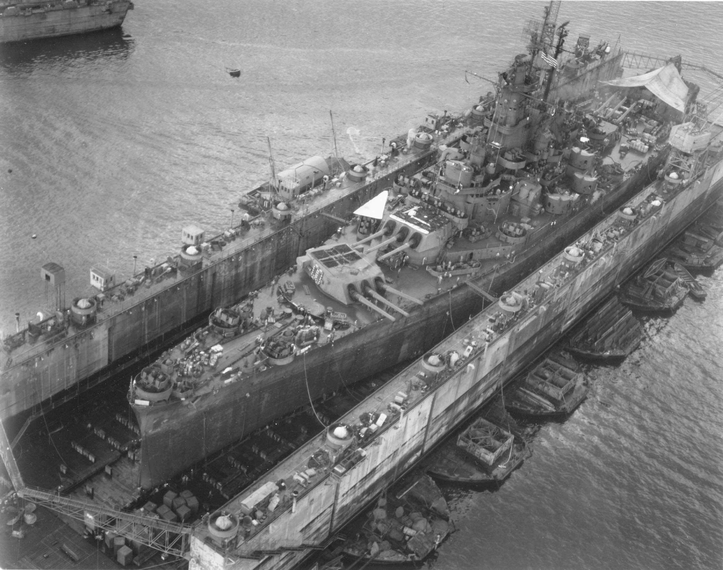 USS ABSD-6 repairing USS South Dakota (BB-57) in Guam. Repairs are done in ABSD-6 dry dock after an accidental explosion on 6 May 1945, while rearming from USS Wrangell (AE-12).